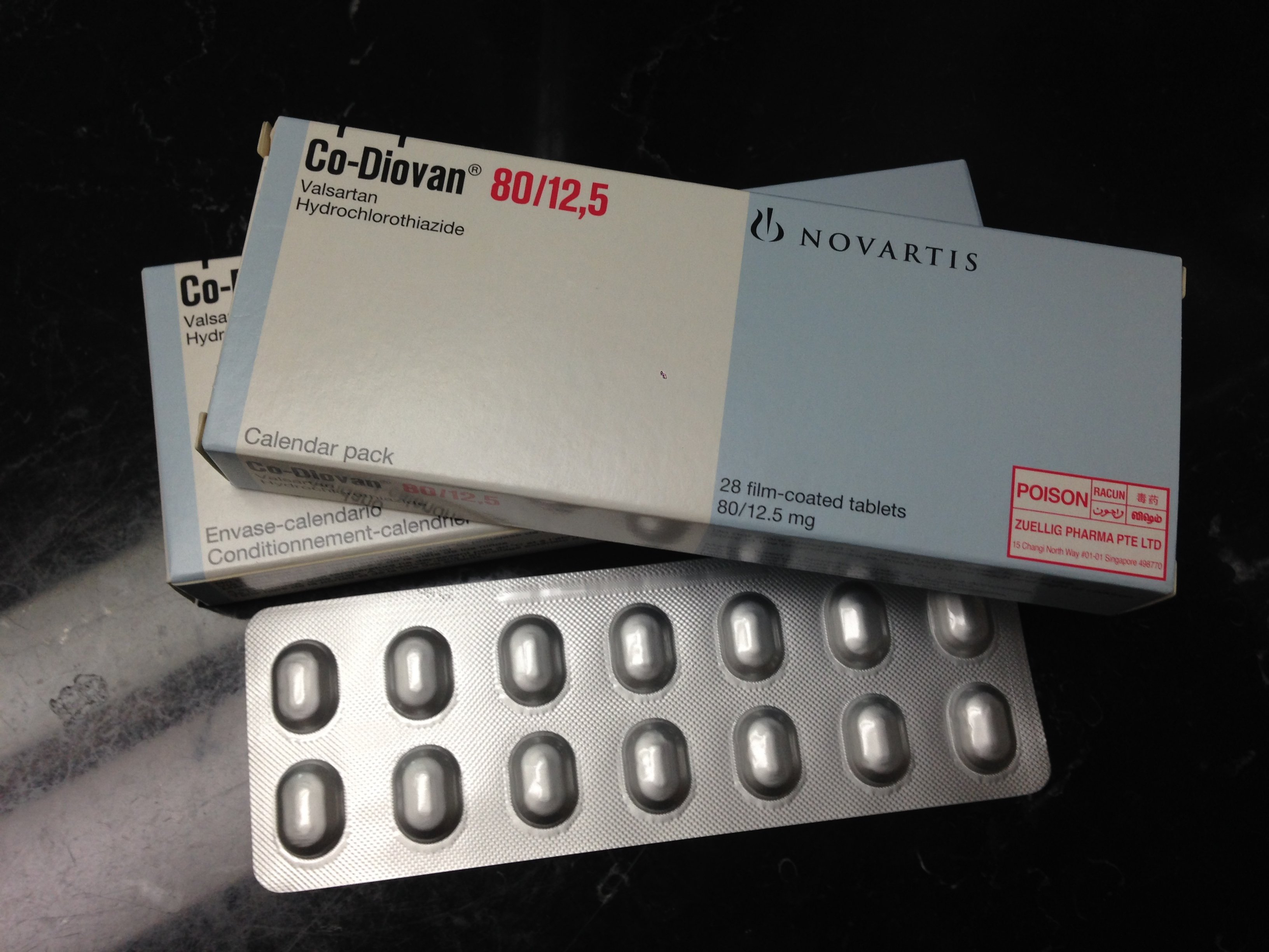 Two boxes and a blister pack of Co-Diovan, a medication for hypertension consisting of Valsartan and hydrochlorothiazide, in Singapore.